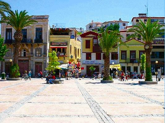 Çeşme, Turkey. Photo by user:Homosapiens1 2005.